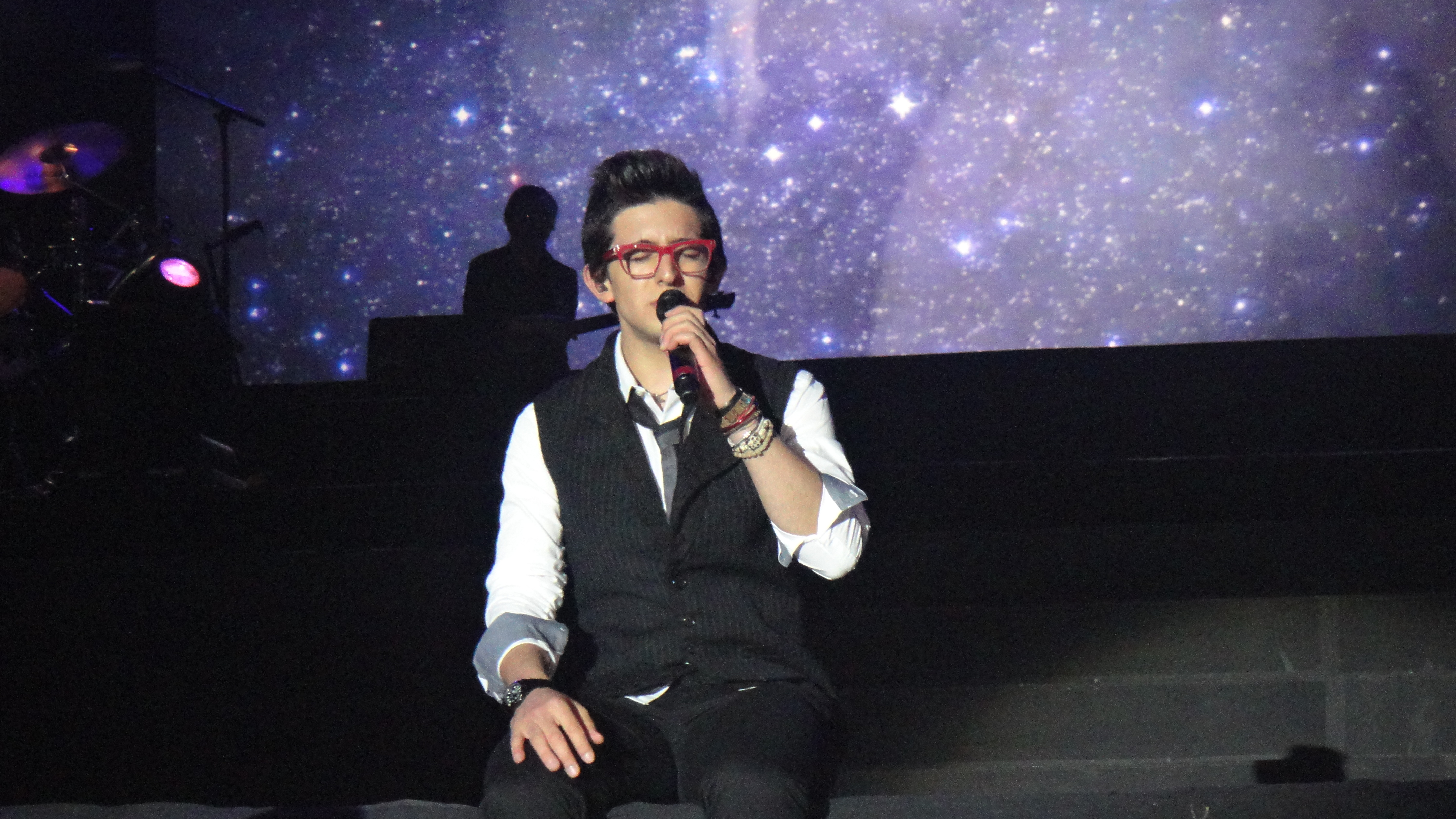 Il Volo at their concert in Bogotá Colombia